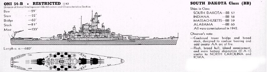 ONI identification: South Dakota class battleship